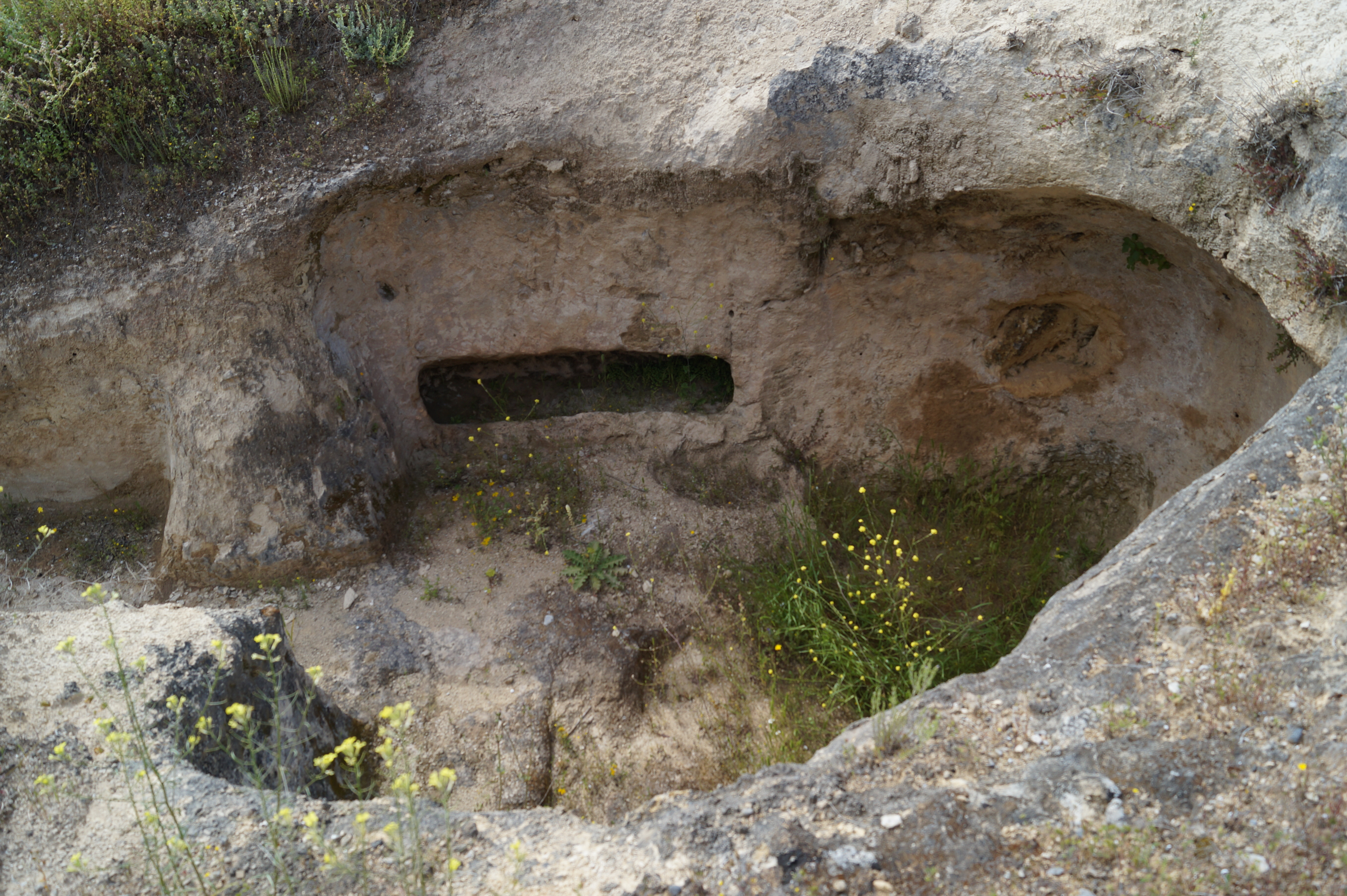 Aidonia, Corinthia, Greece: Mycenaean cemetery of Aidonia, collapsed burial chamber of Tomb 17.